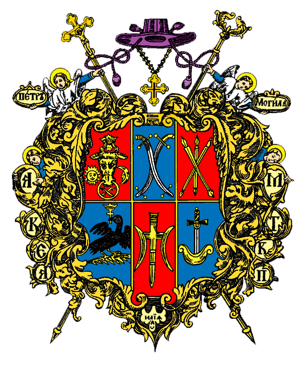 Coat of arms of Peter Mohyla, the archibishop of Kyiv and Halych